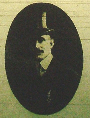 Lauber Dezso, Hungarian Olympic Committee, 1908